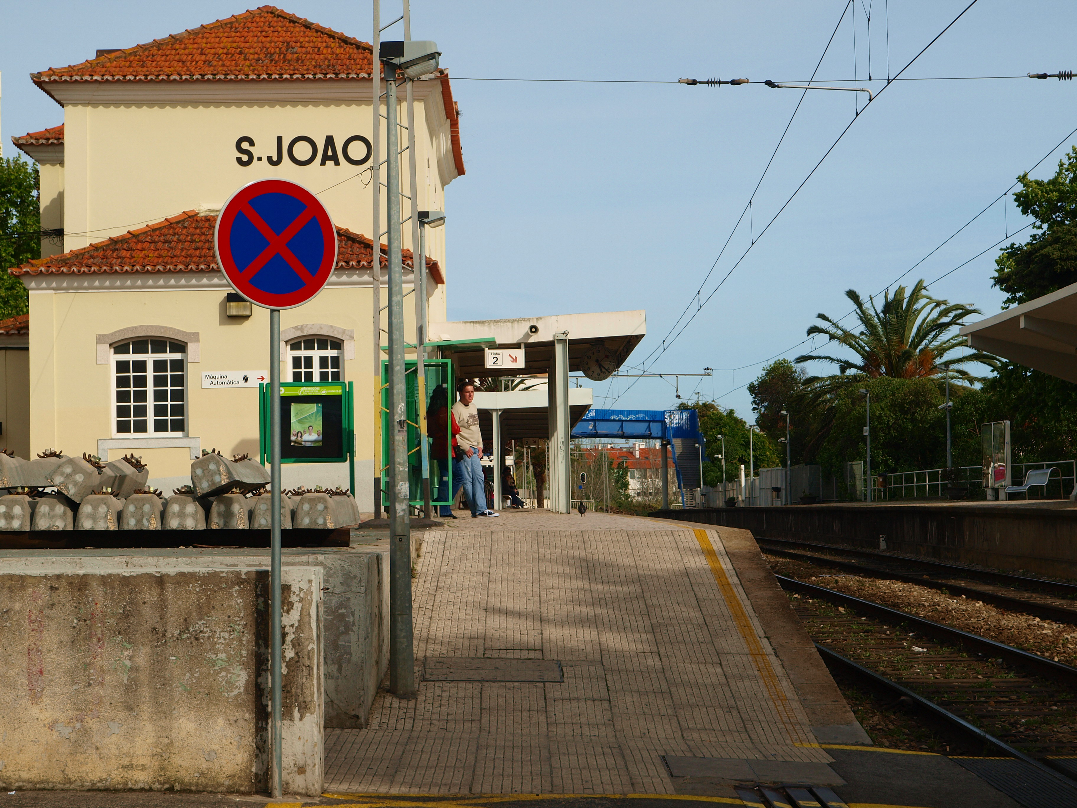 São João train station, Cascais railway, Portugal.